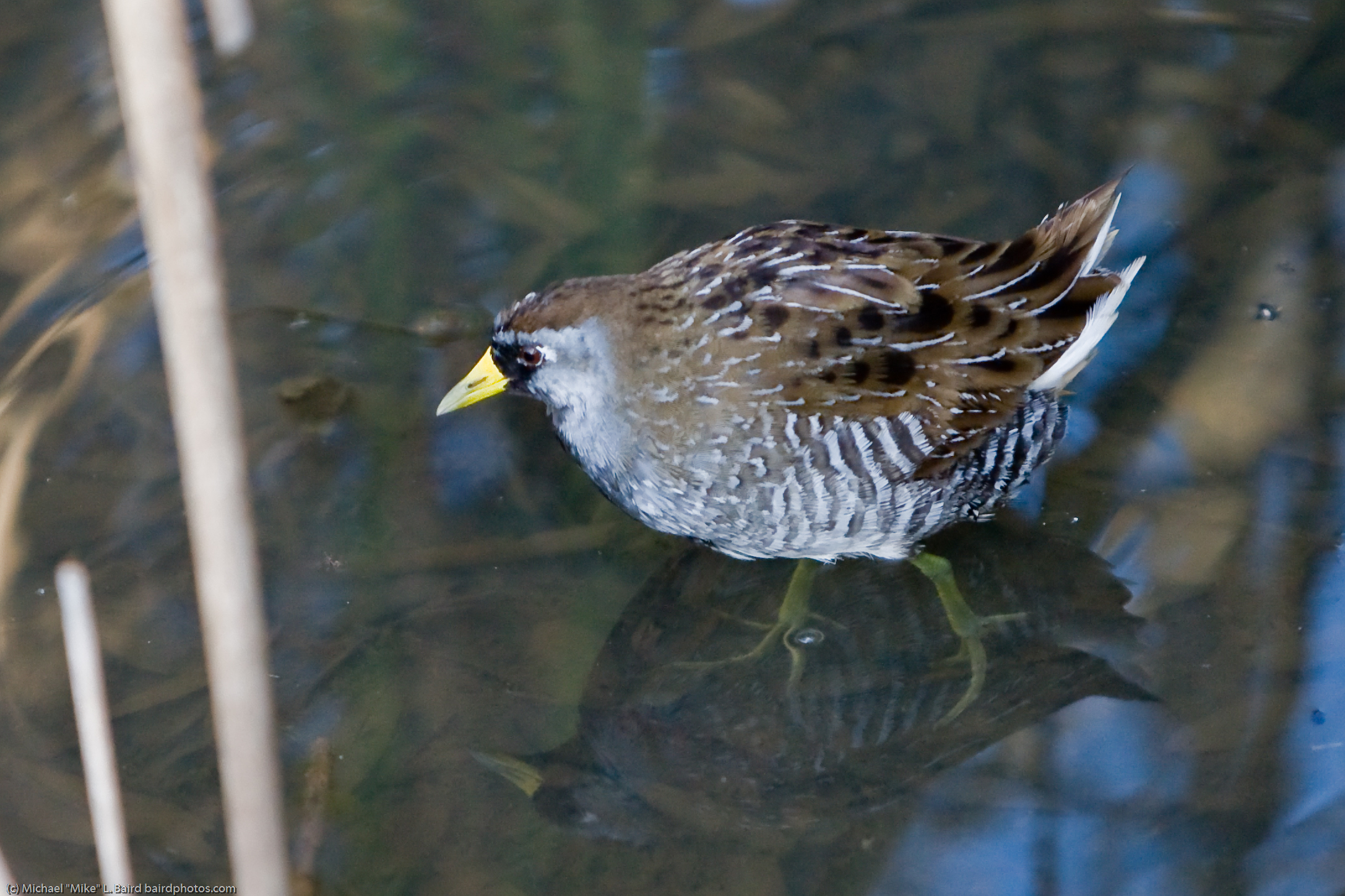 Sora (Porzana carolina) waterbird Rallidae "Sora Rail" "Sora Crake" in the Cloisters City Park pond, Morro Bay, CA 27 Feb 2008. Photo by Michael "Mike" L. Baird Canon 1d Mark III w/ 70-200 f/2.8 lens handheld braced on wooden railing. ISO 1600, 1/1000, f/2.8 185m